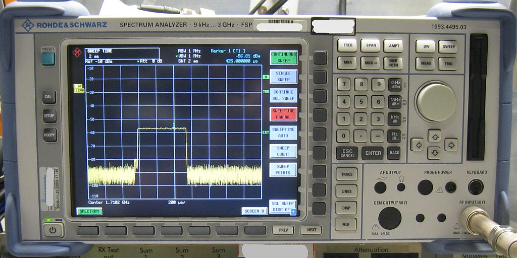 Rohde & Schwarz Spectrum Analyzer FSP displaying a DCS TCH Signal (GMSK modulated)